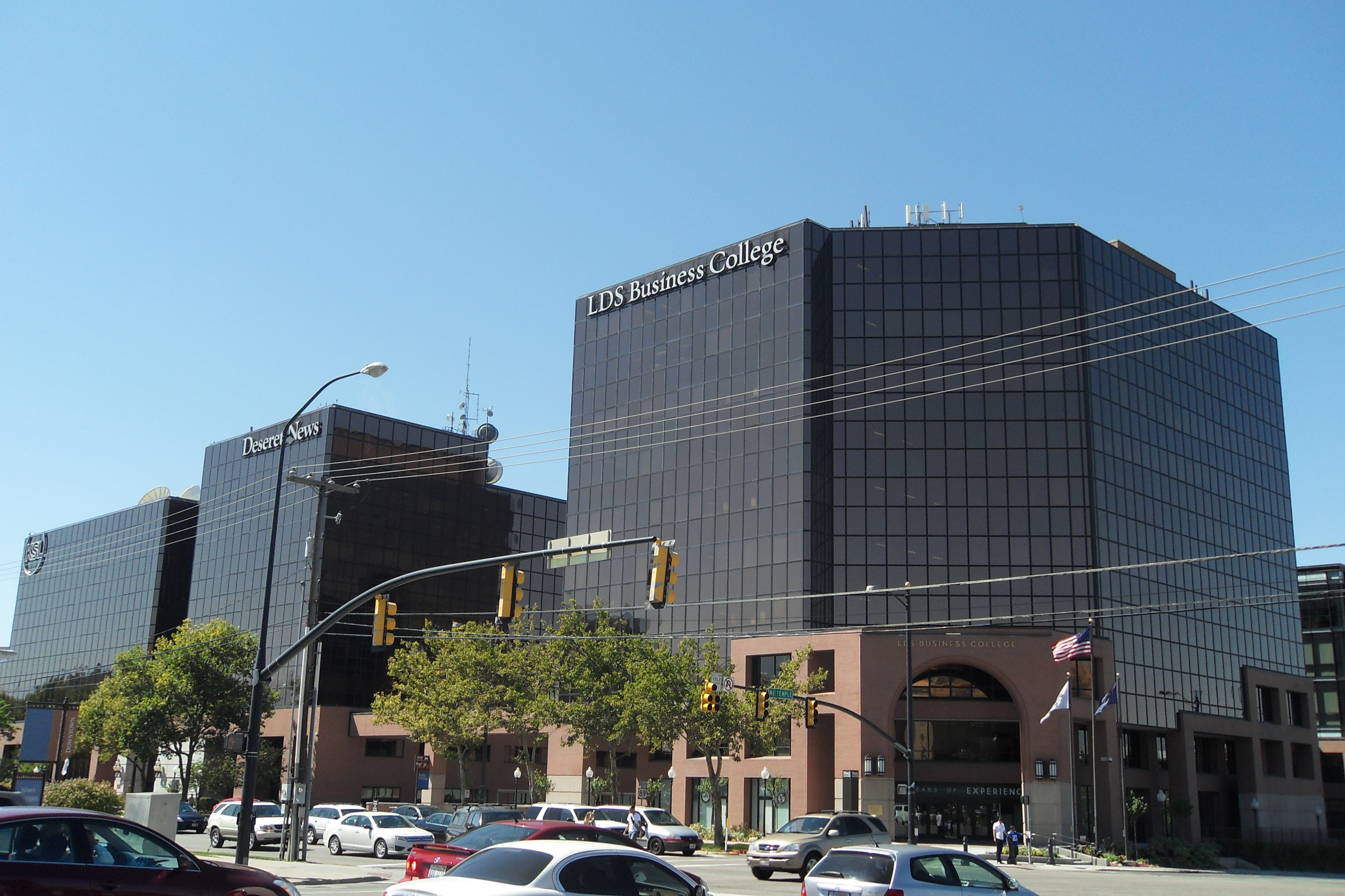 The Triad Center in downtown Salt Lake City, Utah. The Triad Center houses LDS Business College, offices of the Deseret News and KSL-TV.